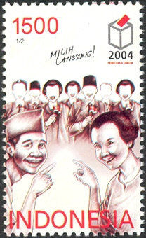 Stamps of Indonesia